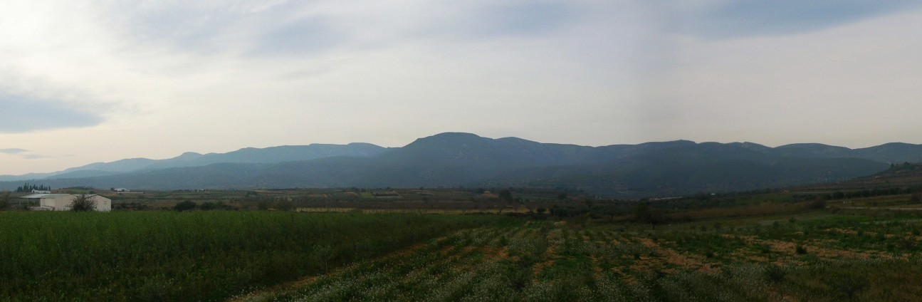 Serra d'en Galceran mountain chain seen from the west